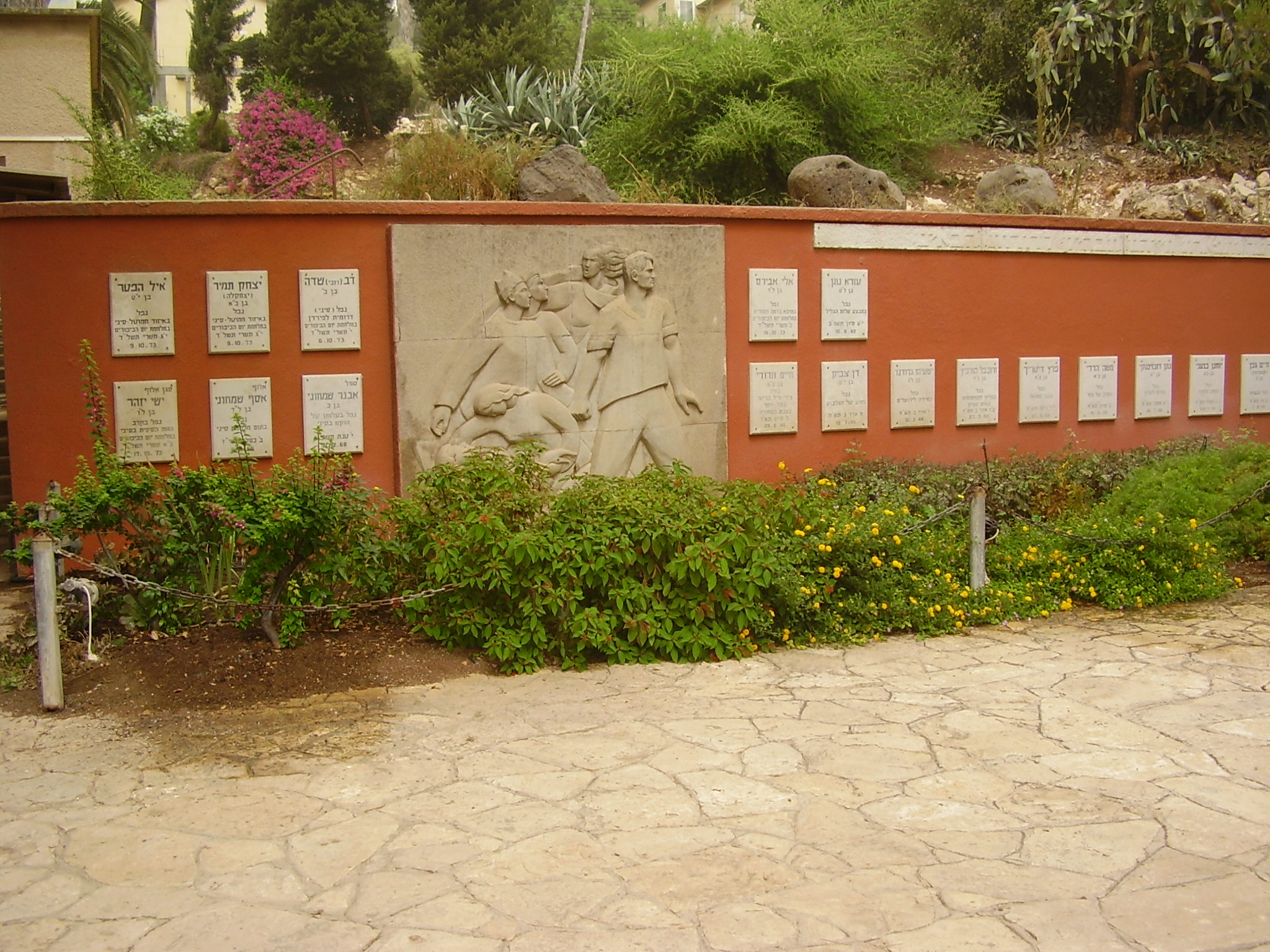 war memorial in kibbutz tel yosef אנדרטה לחללי מערכות ישראל בקיבוץ תל יוסף